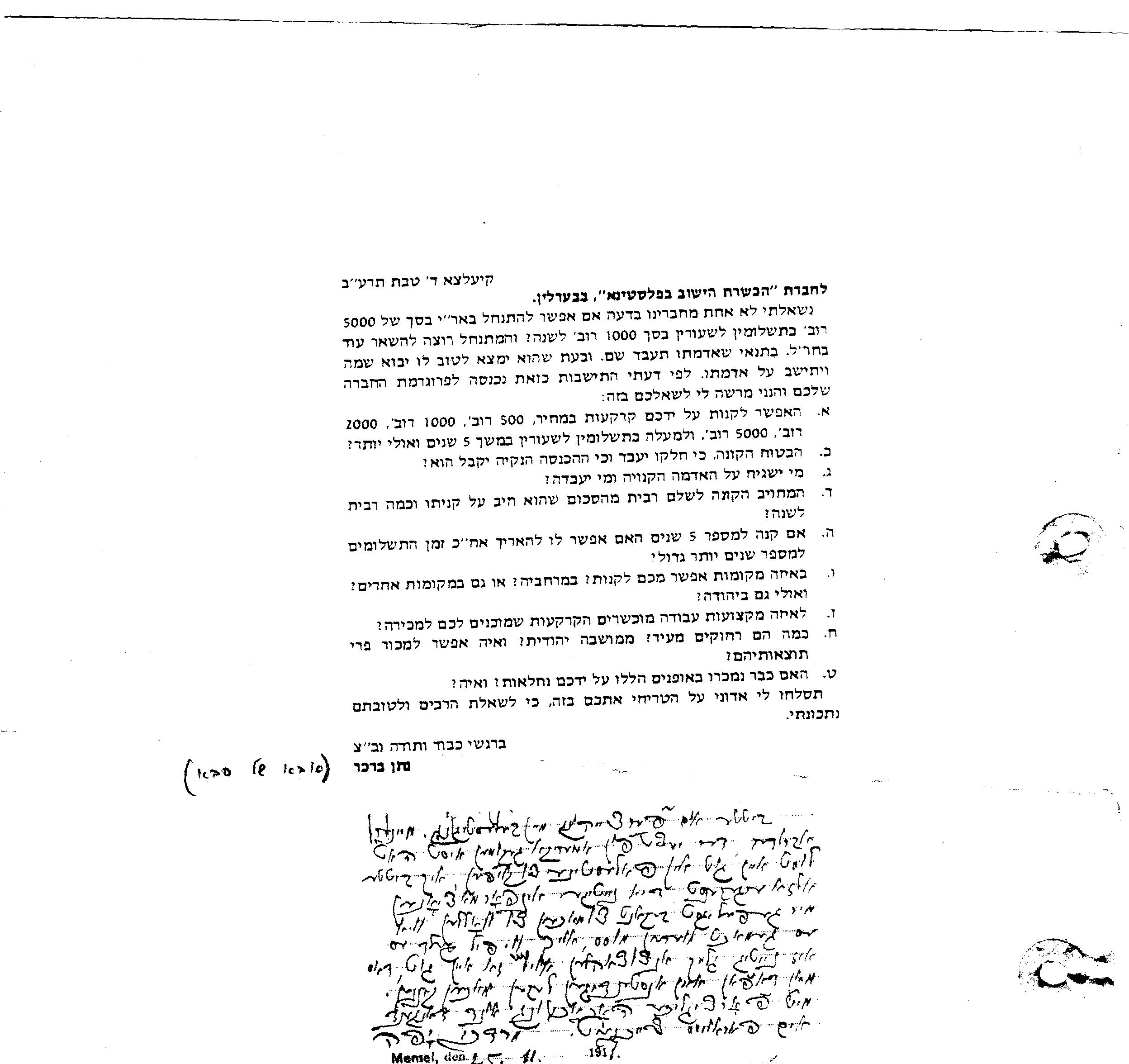 Letter by Nathan Bercher